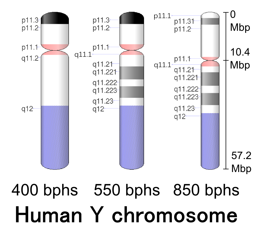 Ideograms of G-band pattern of human Y chromosome in three different resolutions (400, 550 and 850 bphs, bands per haploid set). Different resolutions are corresponding to different band patterns observed through mitotic phase (about relation between banding resolution and mitotic phase, see, for example, Fig.3 in W Sethakulvichaia (2012)). Legend: Black and gray is Giemsa positive. Red is centromere. Light blue is variable region. Dark blue is stalk. At the right, centromere position (center) and q arm terminus position (bottom), counted from p arm terminus (top) in Mbp (mega base pairs), are labeled. Physical length (sometimes referred as "absolute length") is not labeled. Because physical length of chromosomes vary while mitosis. (typical human chromosome physical length is in the order of from several micrometers to ten and several micrometers. See, for example, Category:Human chromosome images with scale bars.).